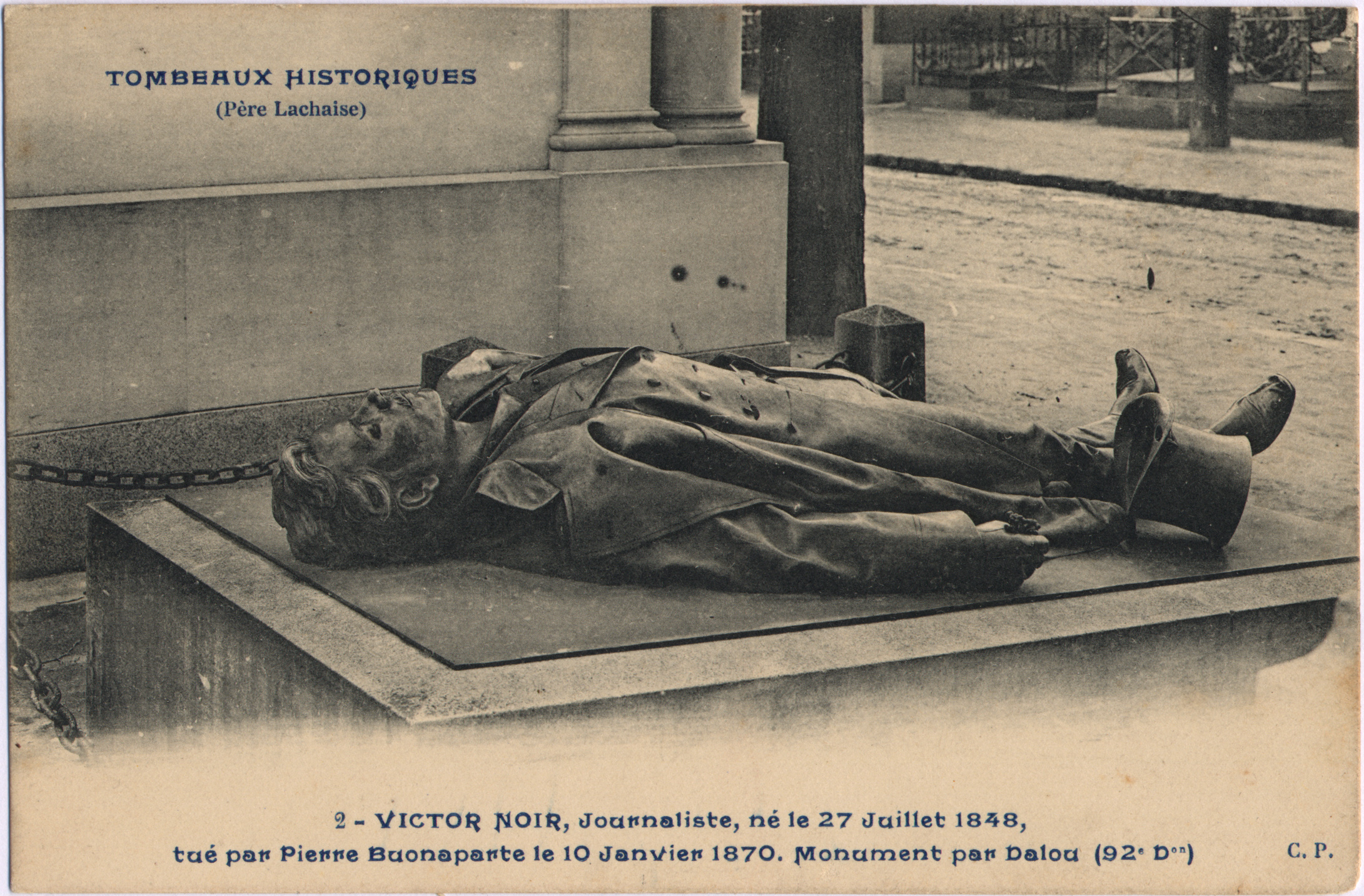 Victor Noir's grave (1848-1870) by Jules Dalou at the Père Lachaise cemetery in Paris.